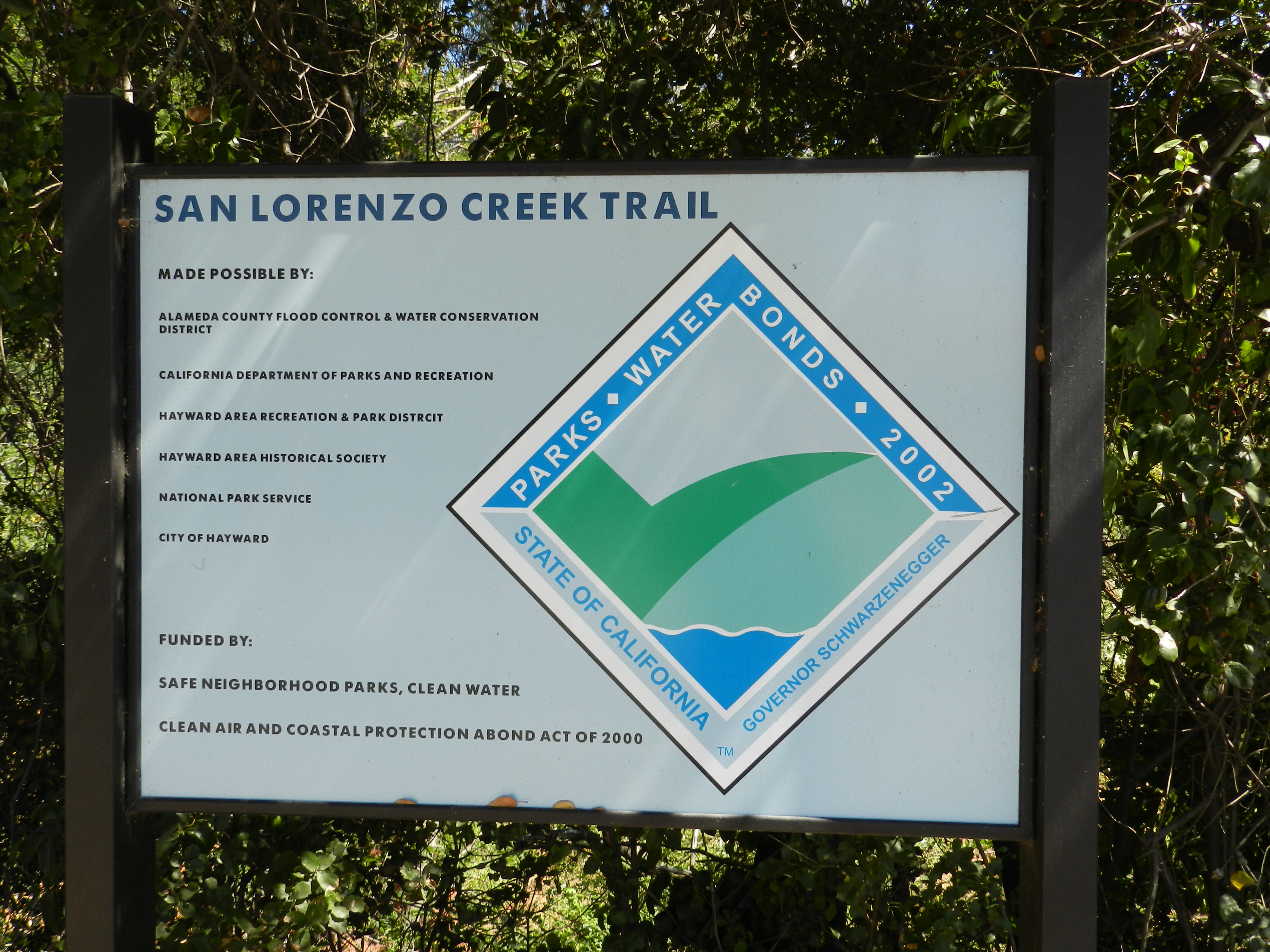 San Lorenzo Creek trailhead, downtown Hayward